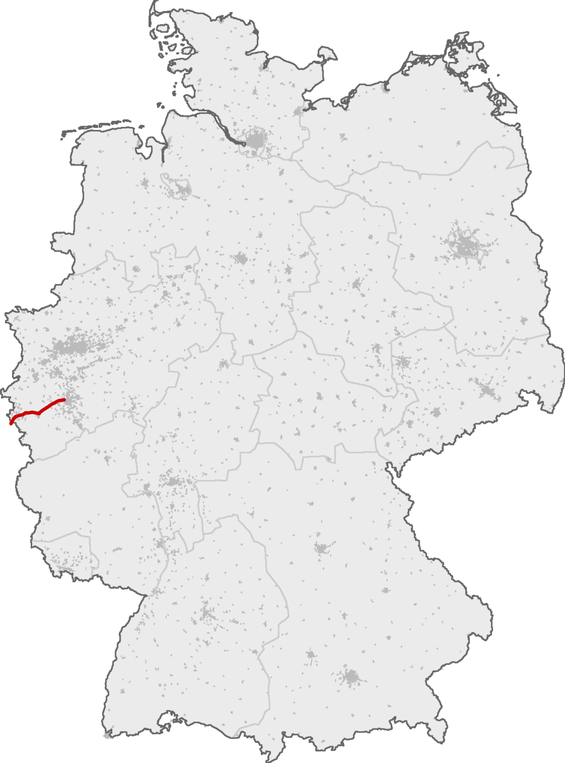 High-speed railway line Aachen–Cologne. The eastern part between Düren and Cologne has been upgraded for speeds up to 250 km/h